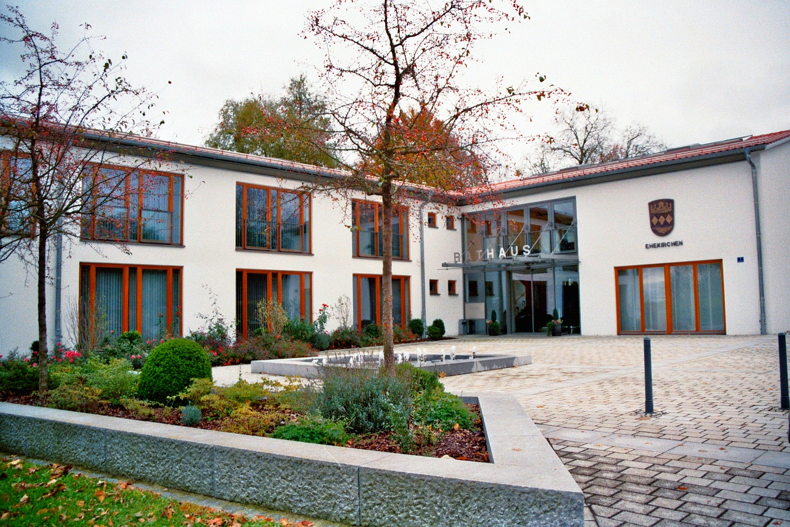 Town hall of Ehekirchen, District Neuburg-Schrobenhausen, Bavaria, Germany.